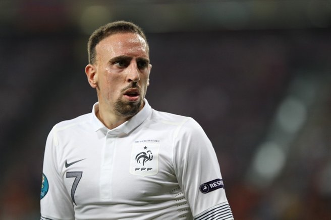 Franck Ribéry at Euro 2012 match Spain-France